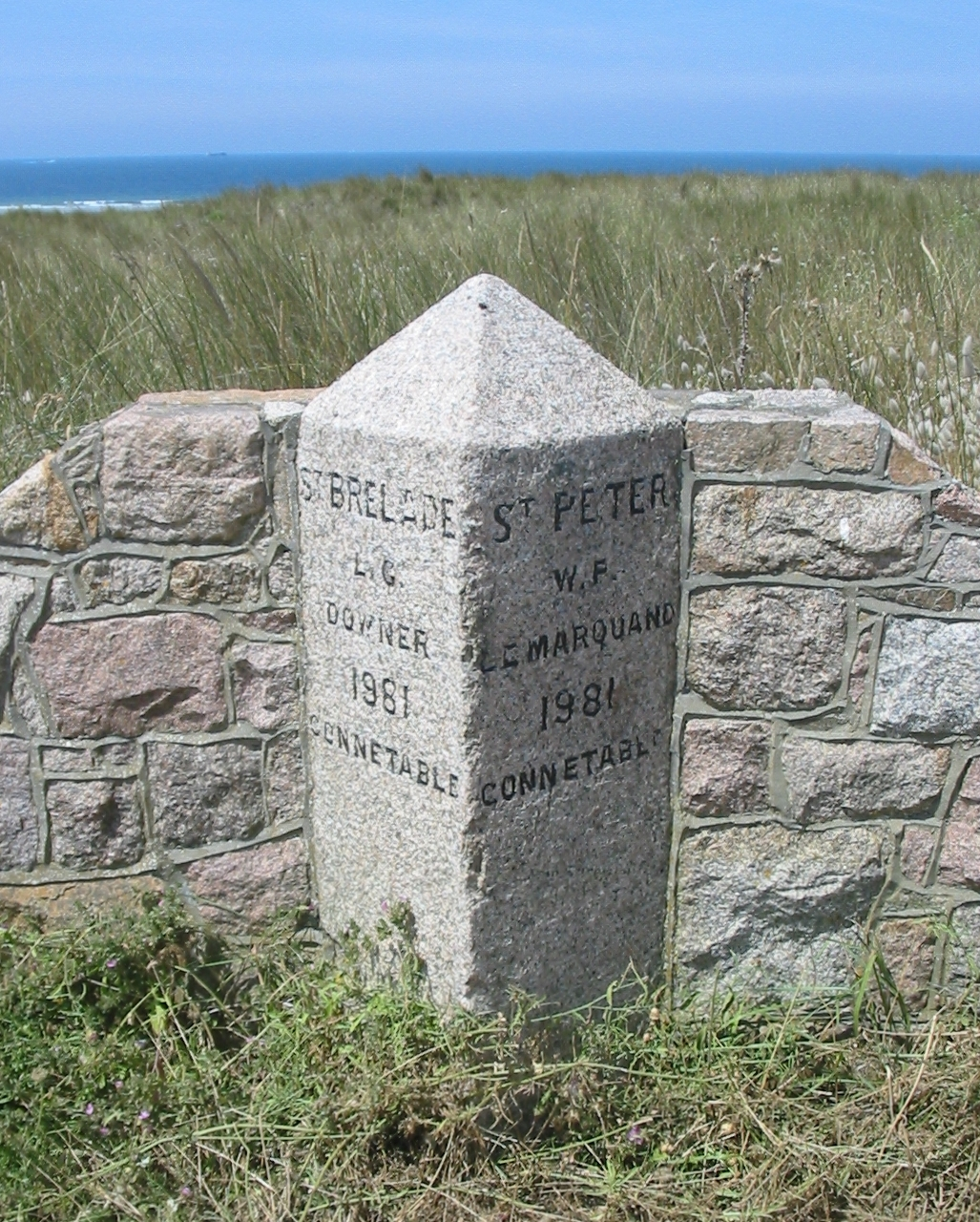 Boundary stone in St. Ouen's Bay, Jersey, marking frontier between St. Brelade and St. Peter Photo taken by Man vyi with Canon PowerShot A40 on 22/7/2005